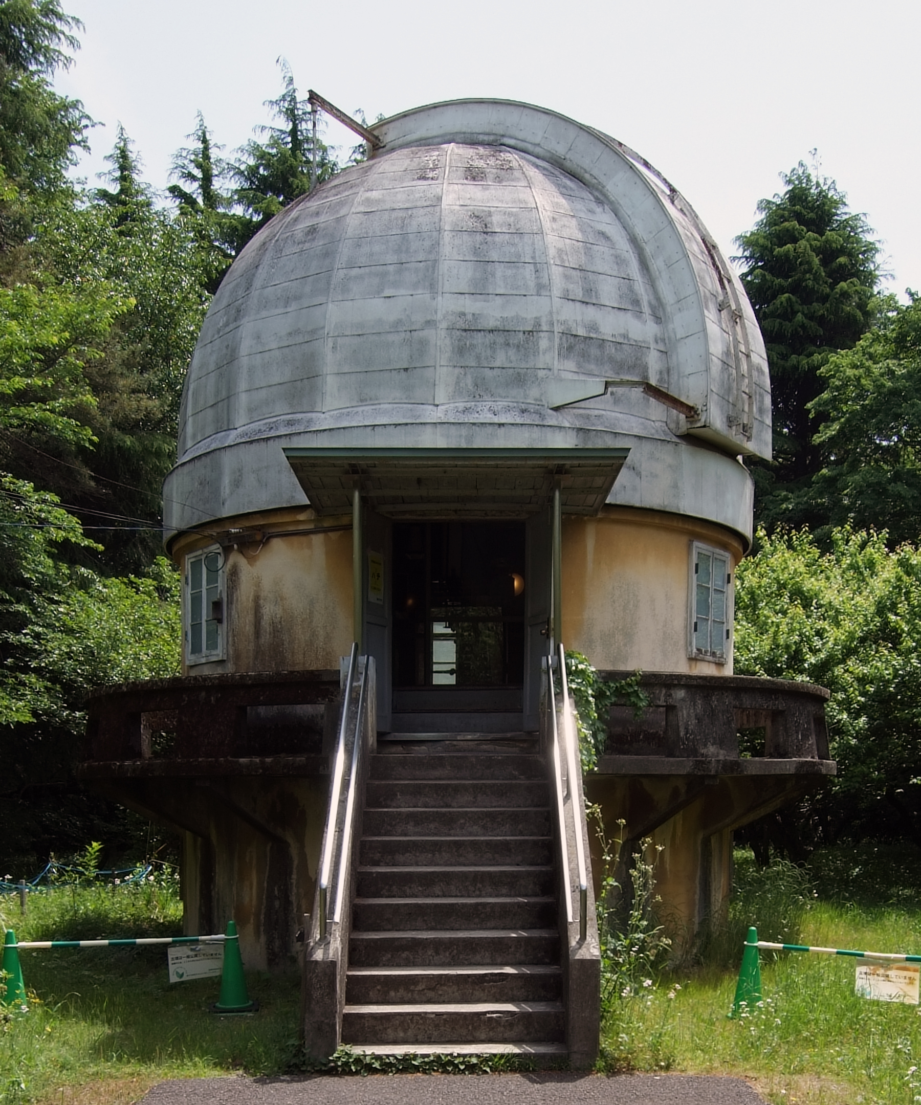 Dome for 8-inch (20 cm) refractor telescope in Mitaka campus of National Astronomical Observatory of Japan, Mitaka, Tokyo, Japan. The First Dome, built in 1921, is the oldest building currently exist in NAOJ.designed by Tokyo Daigaku Eizen-ka.